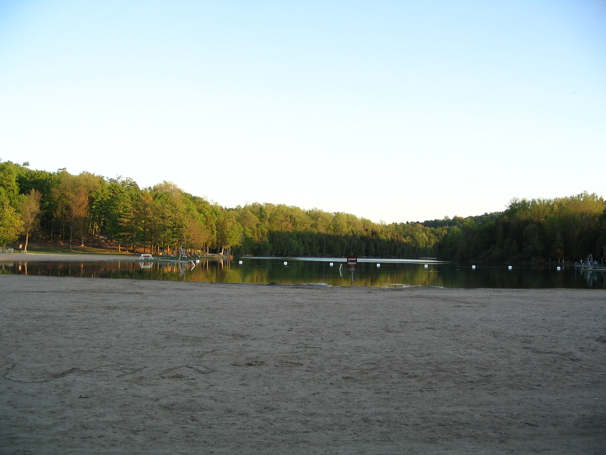 Picture I took during a Barbecue at Green Lakes State Park from the beach in the picnic area.